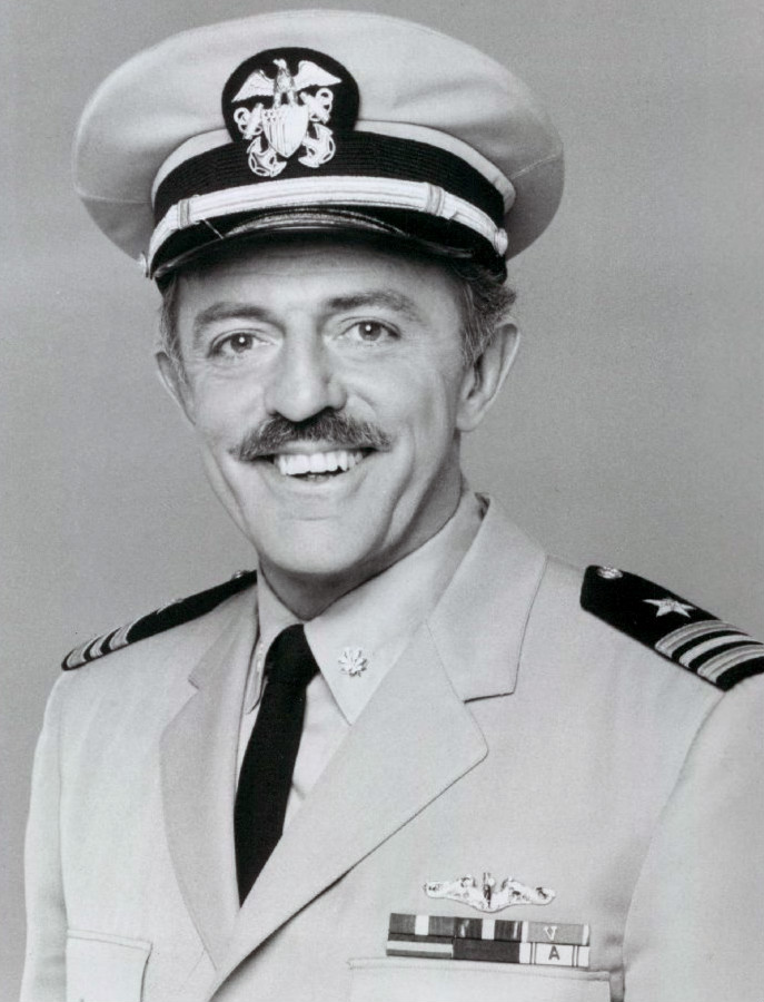 Photo of John Astin as Commander Sherman from the television programOperation Petticoat.